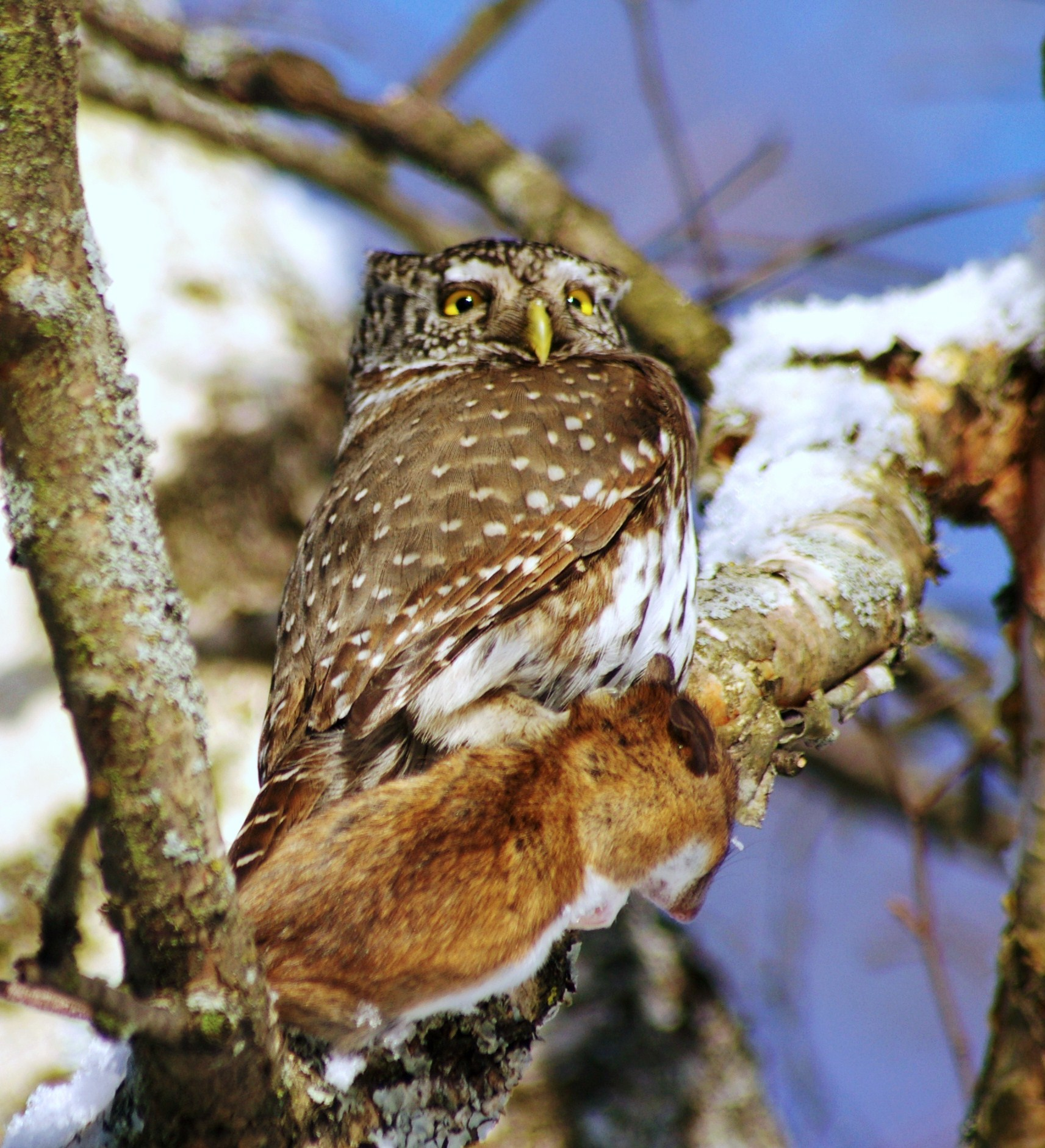 Eurasian pygmy owl